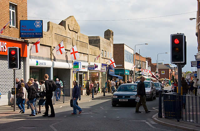 Sherrard Street Busy with pedestrians and cars on a Saturday lunchtime. The flags are out for St. George's Day. The Lloyds bank occupies part of an interesting building in a pseudo Egyptian style. Guesses at a possible previous use centred on a car showroom, though it may have always been shops.